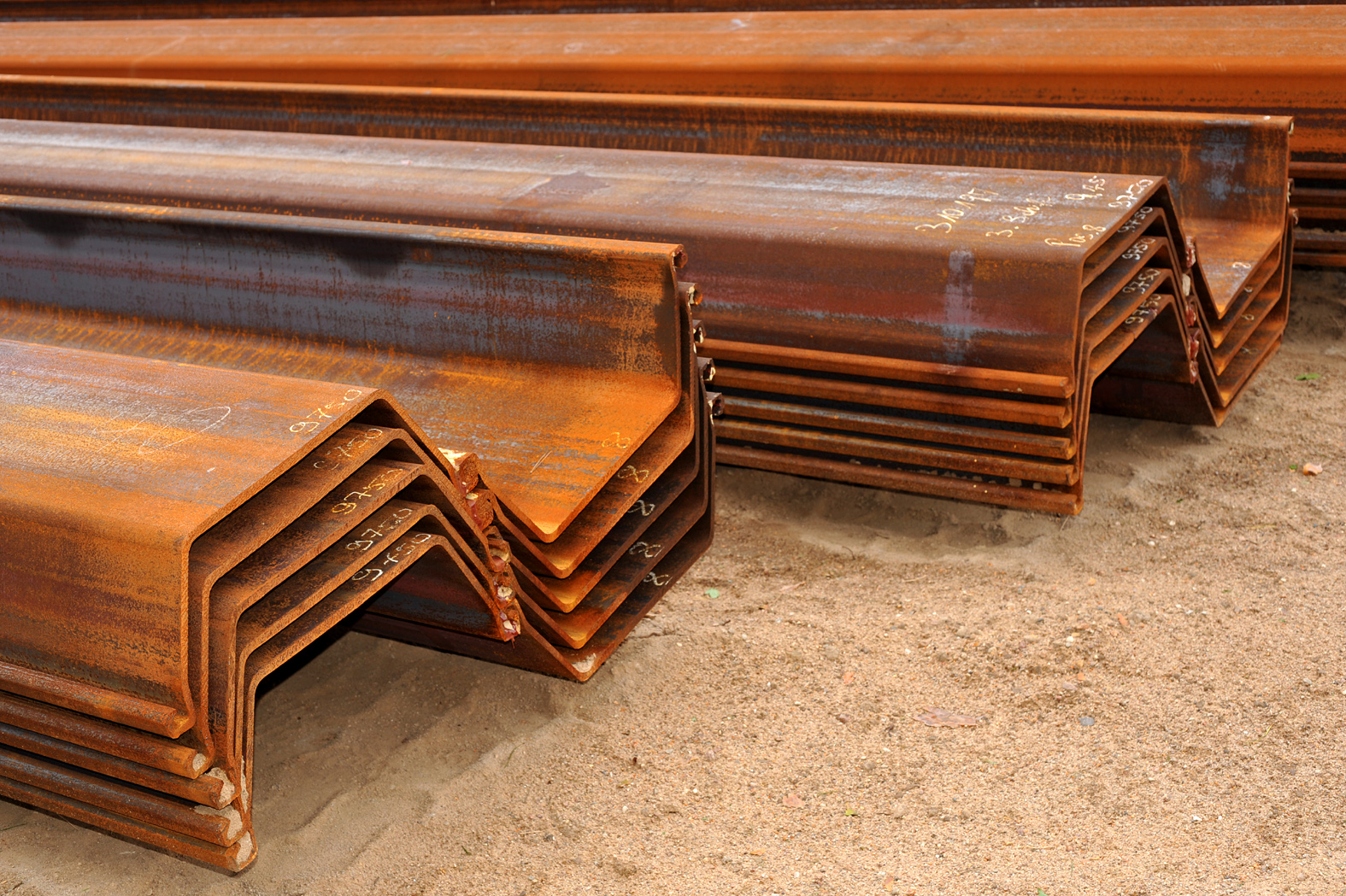 Boat lift Niederfinow Nord, piled up bulkhead elements on the construction site; Brandenburg, Germany.